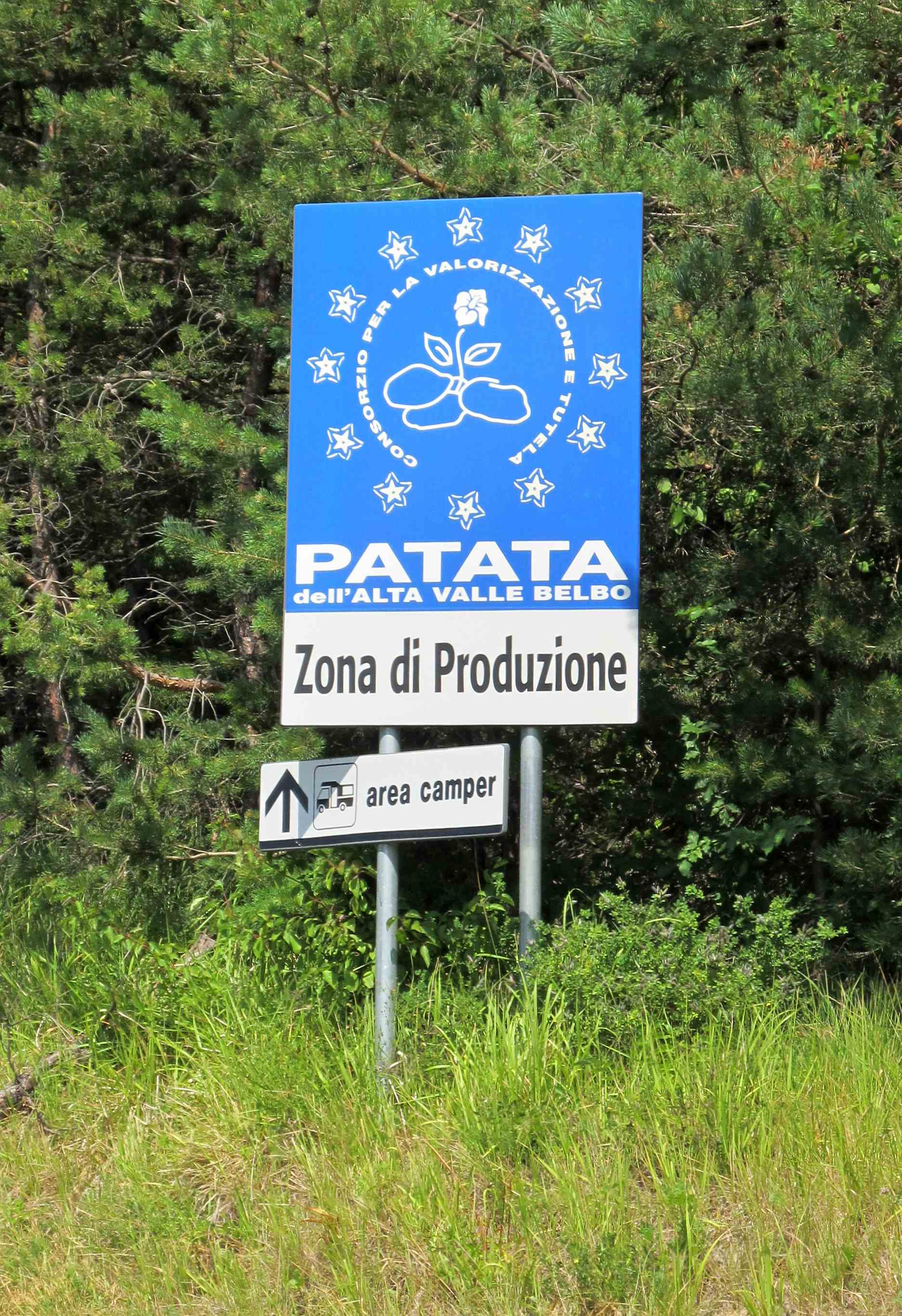 Road sign showing the typical production area of the Patata dell'alta valle Belbo (High valley of Belbo potato)